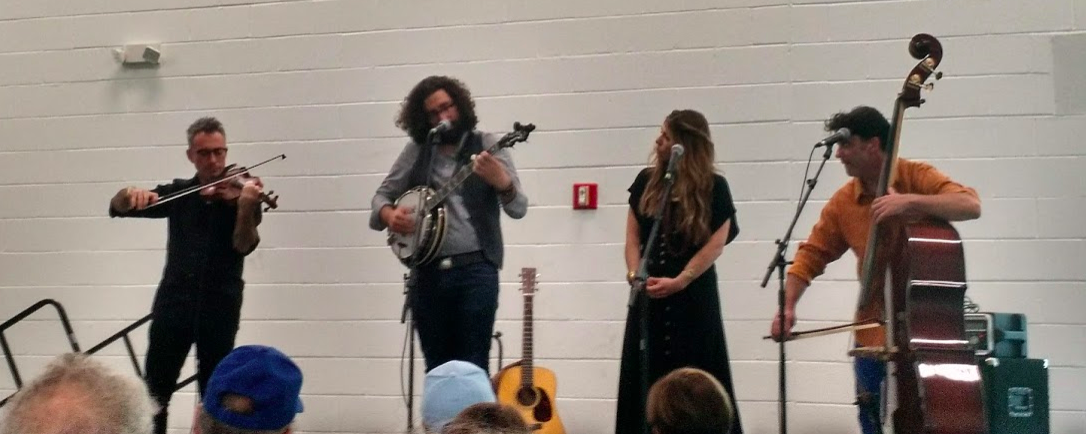 Nefesh Mountain performing in Cary, NC. From left, Alan Grubner, Eric Lindberg, Doni Zasloff, and Tim Kiah.